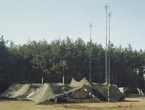 Photo of a Danish radio trunk node establish by the Danish Signal Regiment